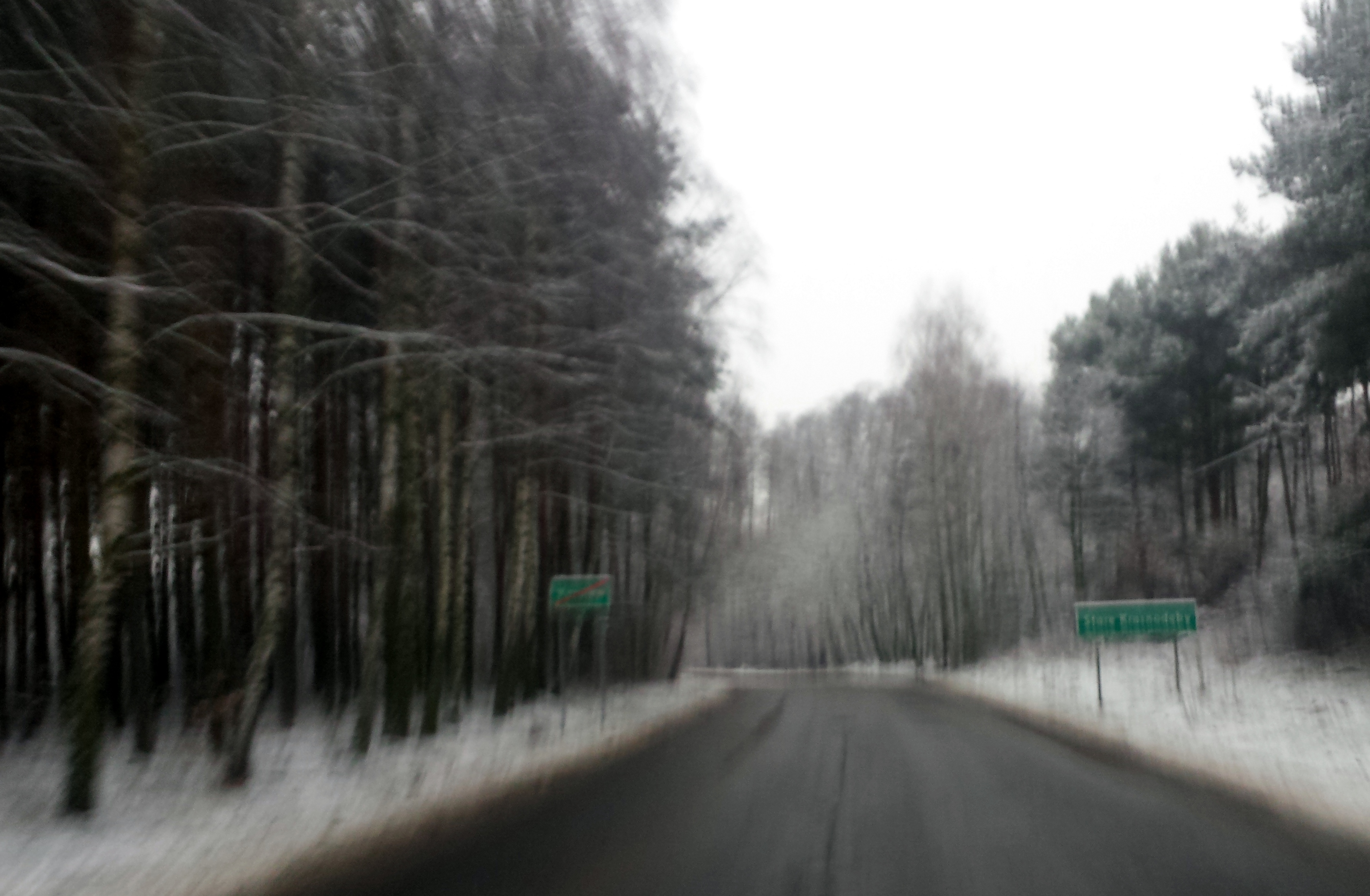 southern route to Stare Krasnodeby